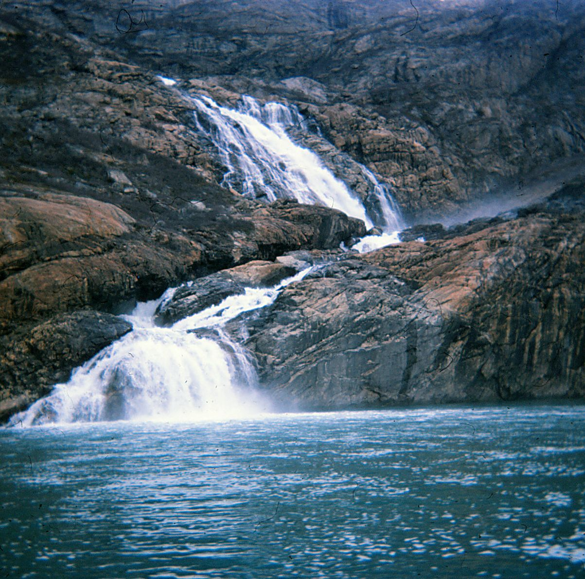 Fox Fall in Arsuk Fjord close to Grønnedal Naval Base in Greenland. May 1977.